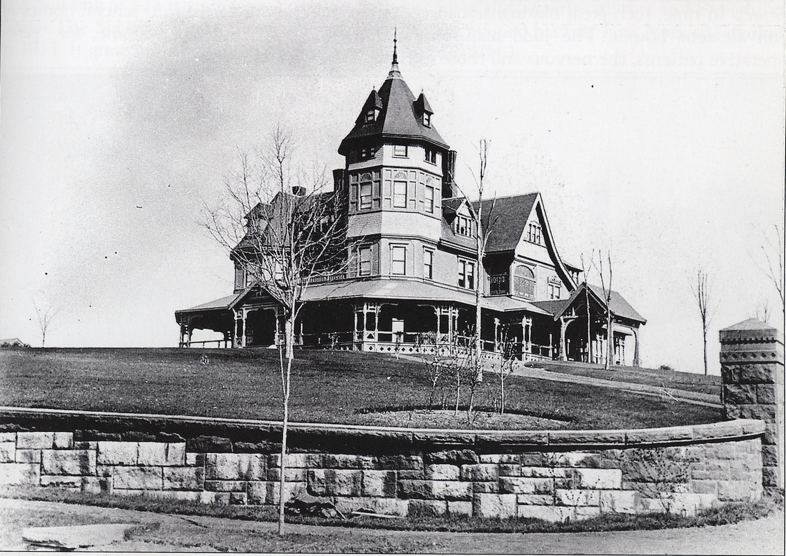 Cornelius Jeremiah Vanderbilt's mansion, designed by John C. Mead, torn down in 1918.